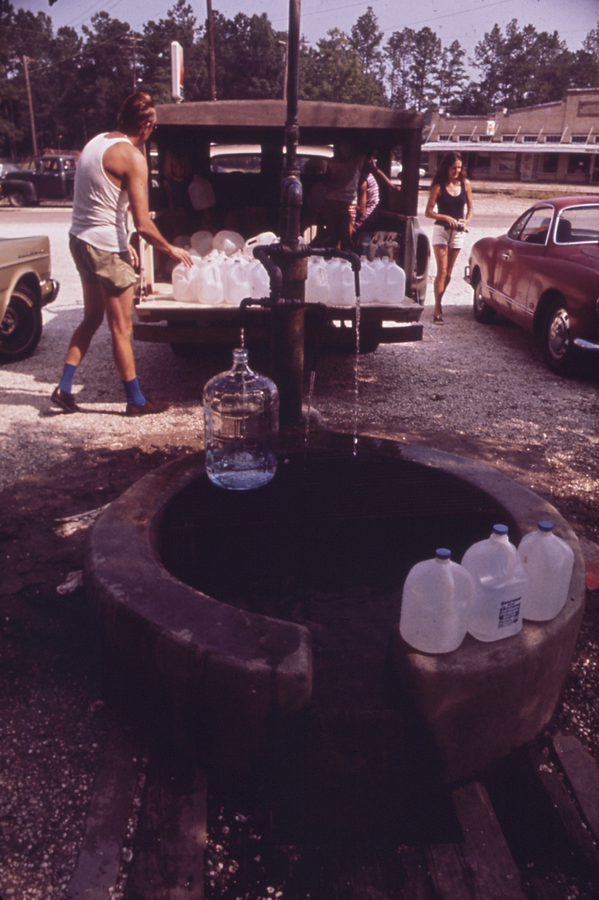 "ARTESIAN WATERPUMP, 05/1972" Shows people filling containers with water in Abita Springs, Louisiana.